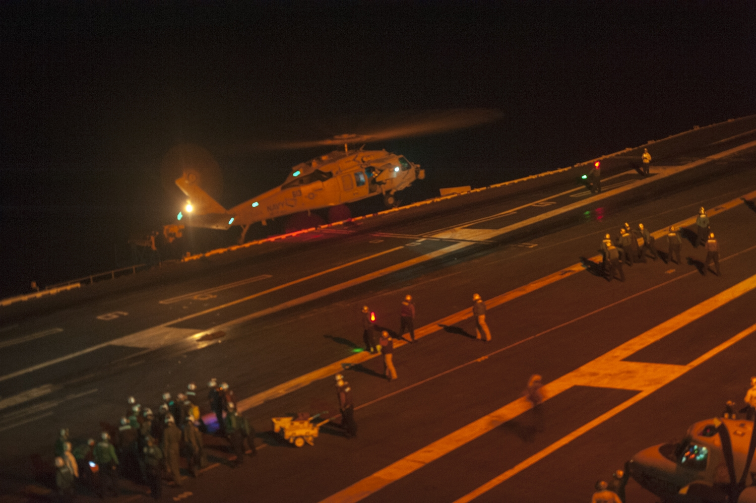 140912-N-TP834-186 PACIFIC OCEAN (Sept. 12, 2014) An MH-60S Sea Hawk helicopter from the Red Lions of Helicopter Sea Combat Squadron (HSC) 15 lands on the flight deck of the Nimitz-class aircraft carrier USS Carl Vinson (CVN 70) during search and rescue operations for the pilot of one of two F/A-18 Hornets which crashed earlier in the day while operating from the ship. The other pilot was located and returned to Carl Vinson for medical care. The Carl Vinson Carrier Strike Group is on deployment to the U.S. 7th Fleet area of responsibility supporting security and stability in the Indo-Asia-Pacific region. (U.S. Navy photo by Mass Communication Specialist 2nd Class John Philip Wagner, Jr./Released)